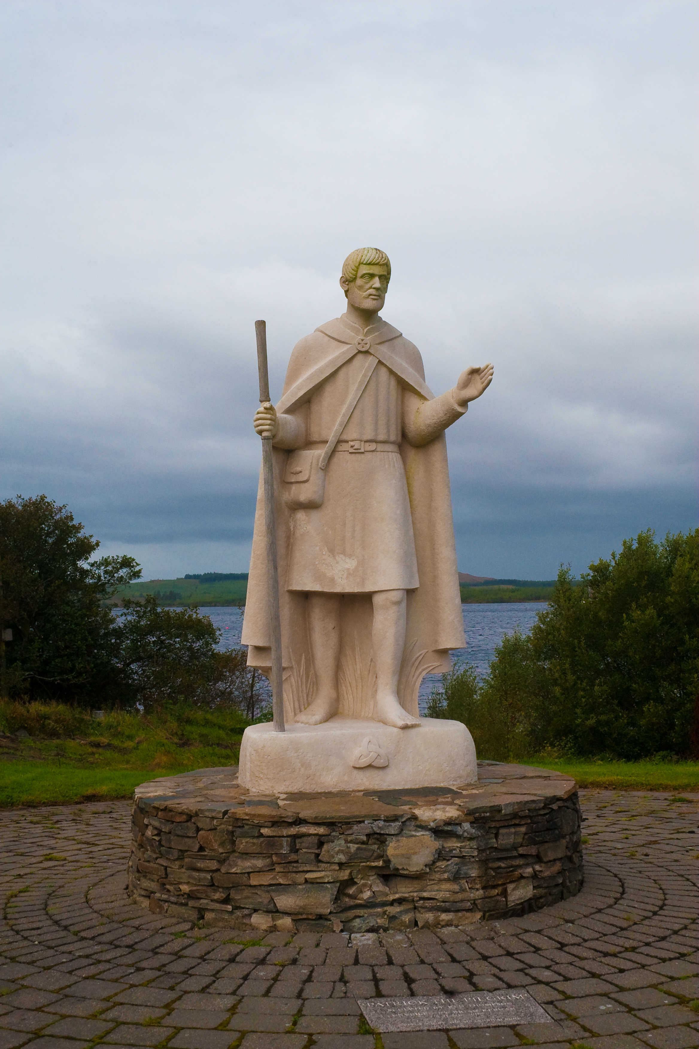 Lough Derg, County Donegal, Ireland Statue titled St. Patrick The Pilgrim by the Cork sculptor Ken Thompson, unveiled by Brian Keenan on 7 June 2002 and blessed by the Bishop of Clogher, Most Rev Joseph Duffy. The statue is located close to the mainland pier of the ferries to Station Island.